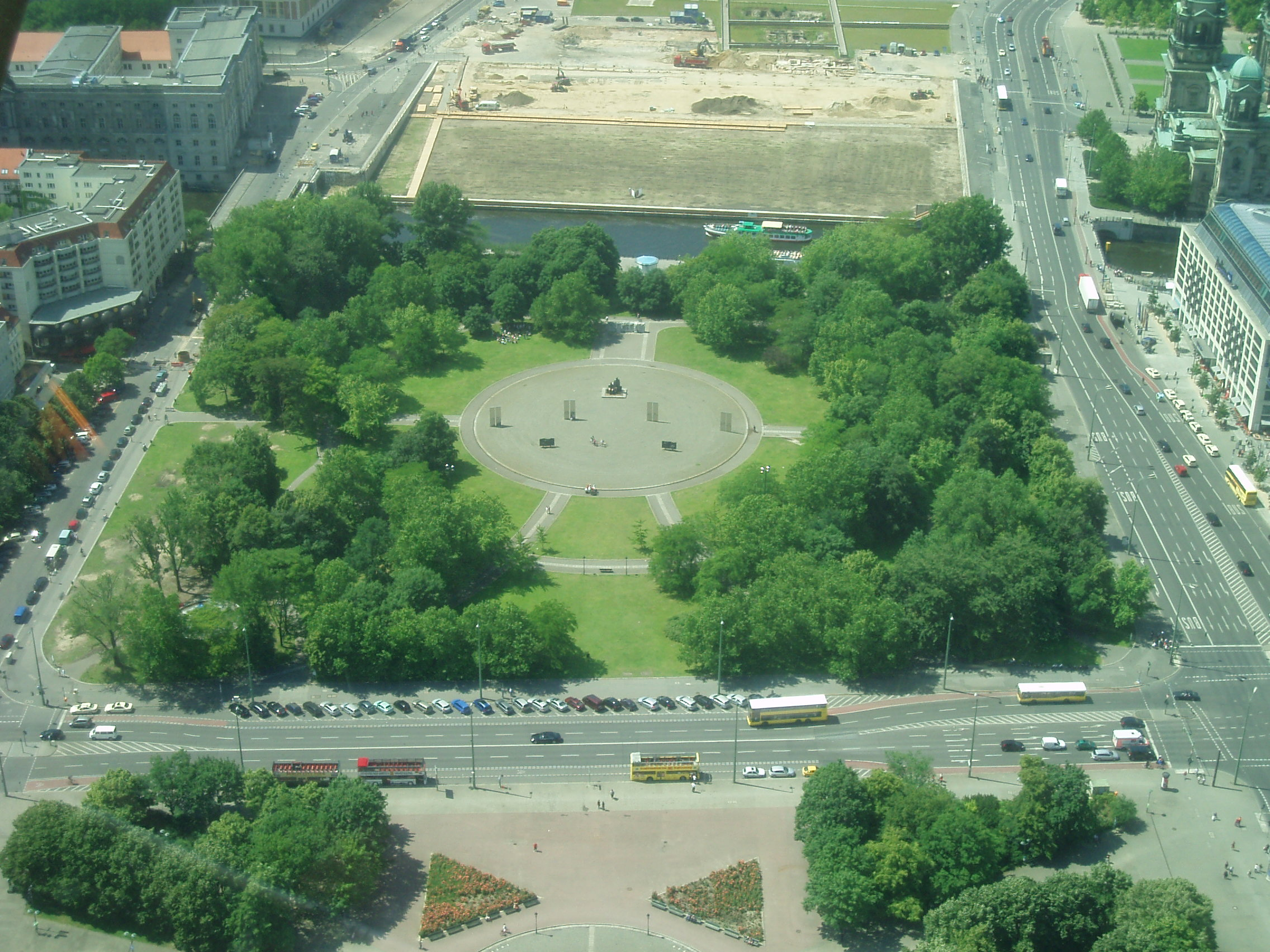 View of Marx-Engels-Forum from the Berlin TV tower.